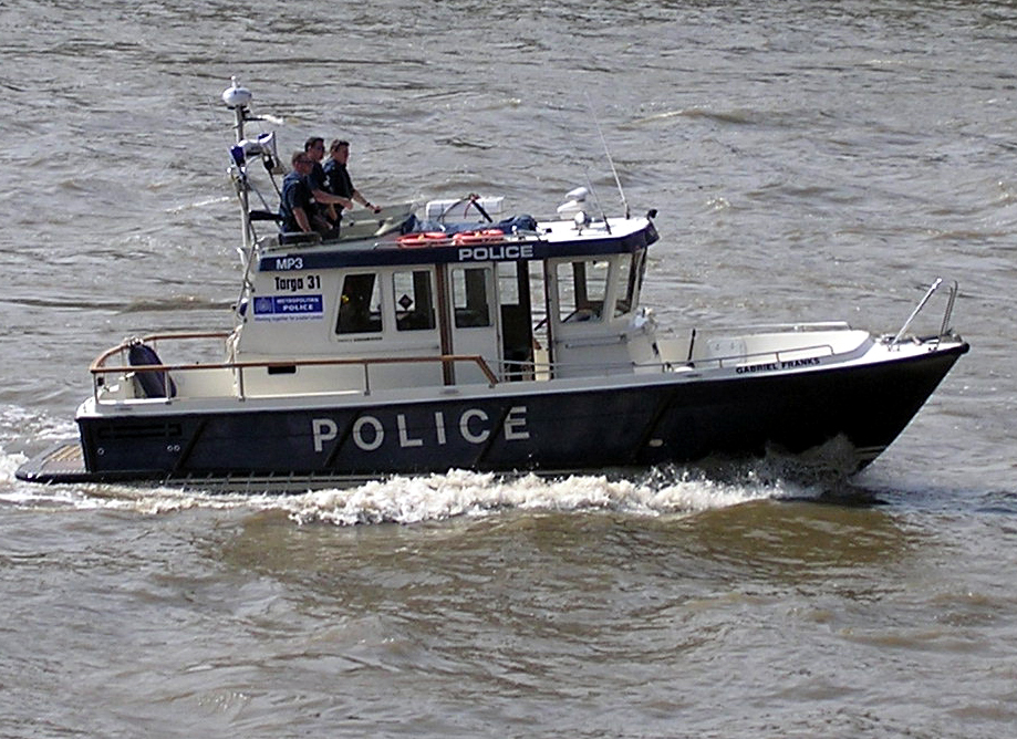 Gabriel Franks - a Fast Response Targa 31 boat of the Marine Support Unit of the Metropolitan Police, on the River Thames in London.